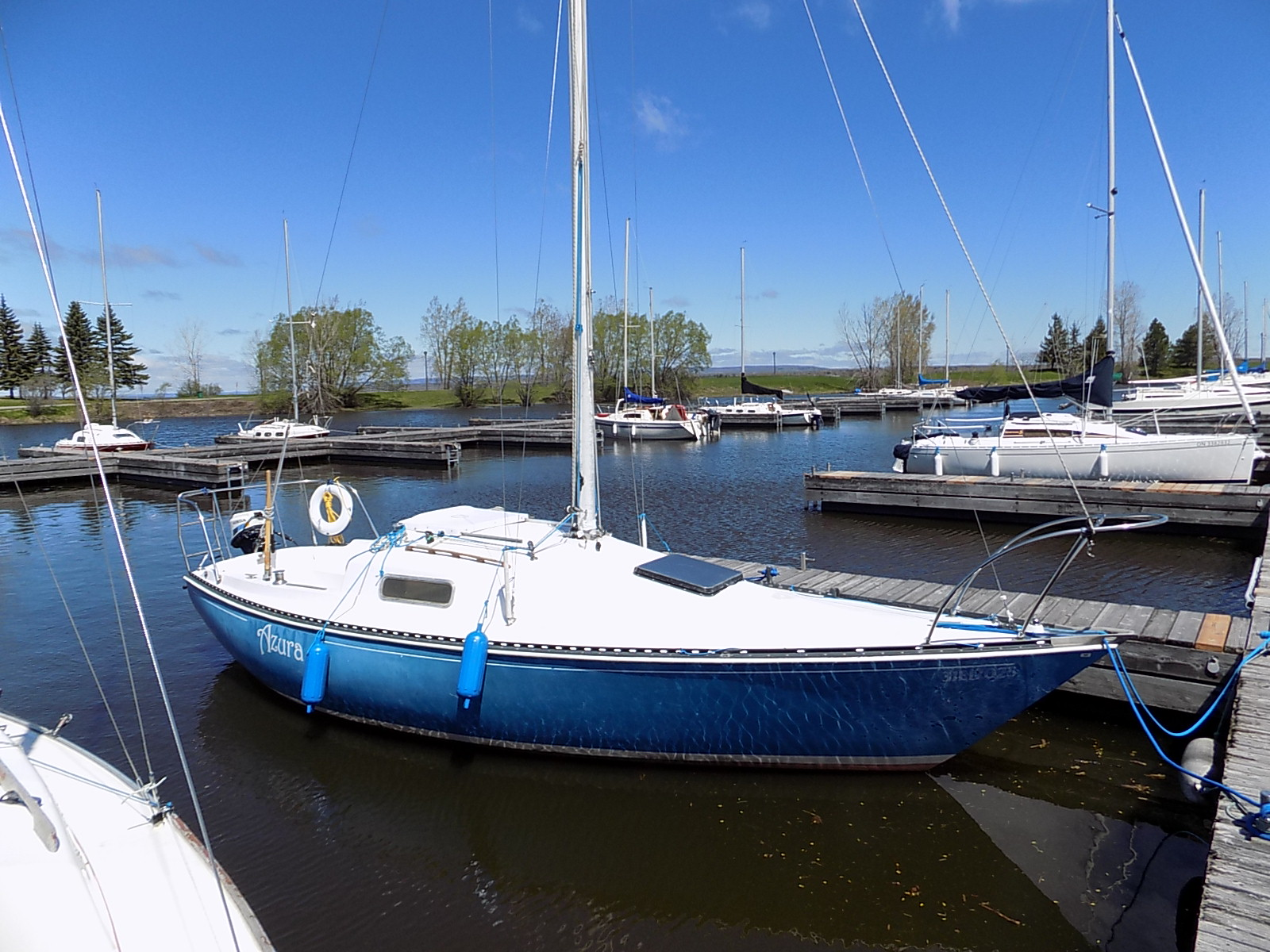 A Mirage 24 sailboat named Azura